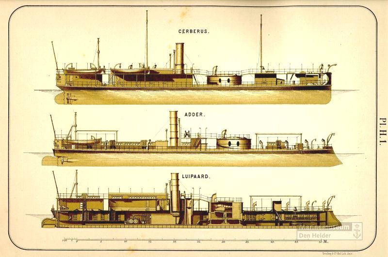 Dwarsdoorsnede van een aantal monitors